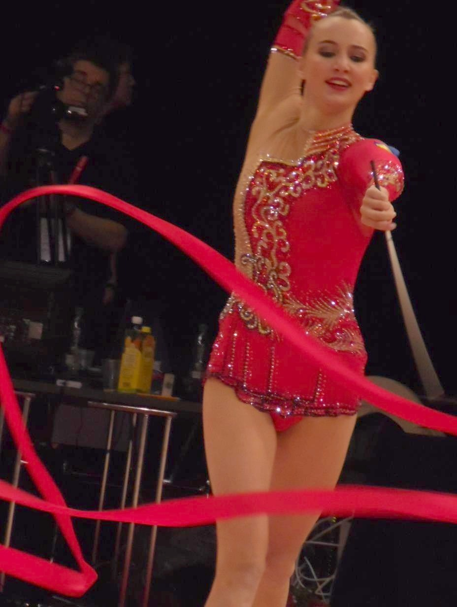 miss valentine 2013 a le coq sportihall